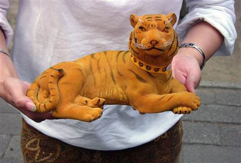 Bottle of Tiger Bone Wine. TRAFFIC has no implicit endorsement on the page's content.